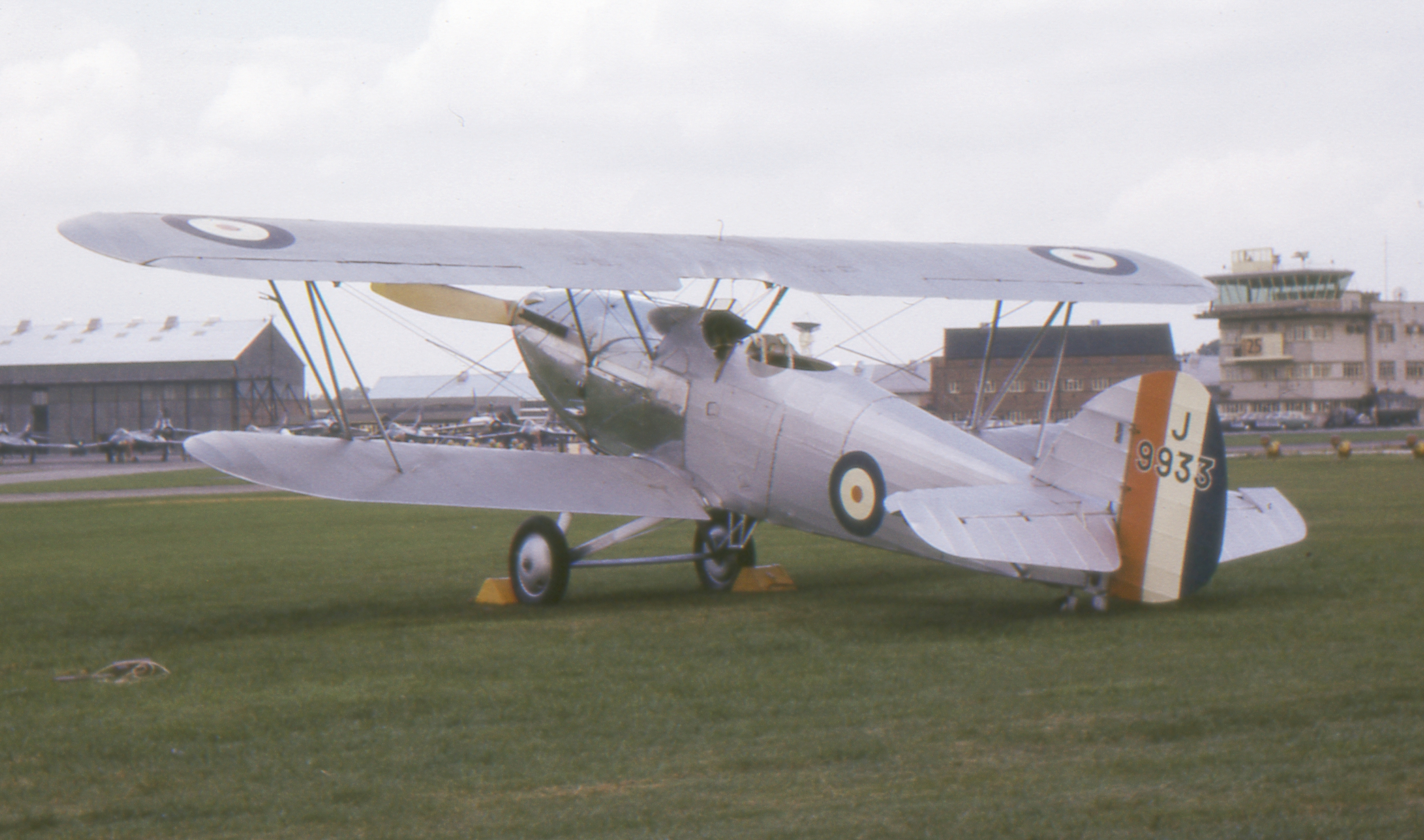 Hawker Hart G-ABMR at the SBAC show Farnborough on 8 September 1962. She was painted as the first production aircraft, J9933 between 1959-1970.